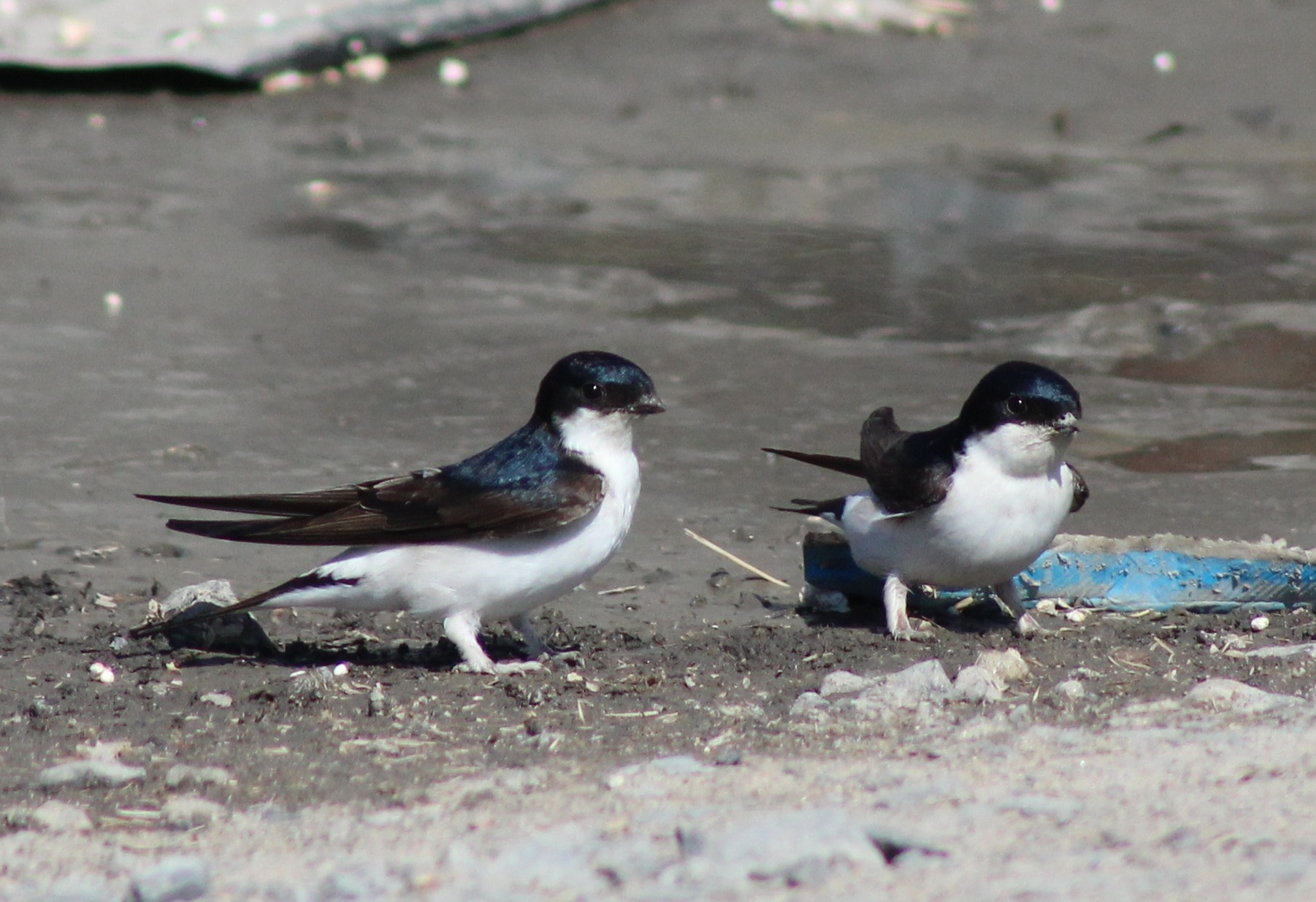 House Martins (Delichon urbicum) gathering mud for their nests in Toppila, Oulu.